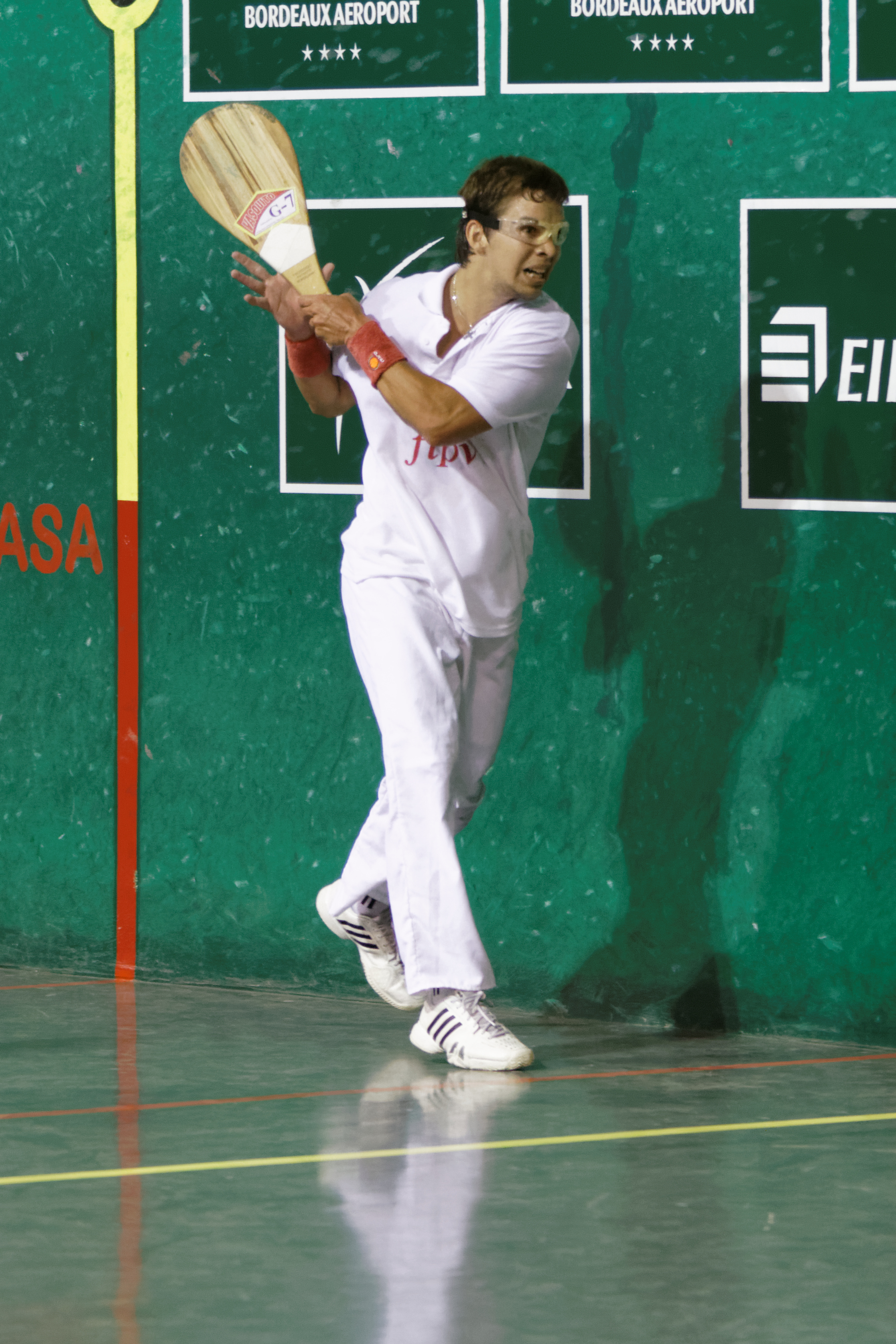 2013 Basque Pelota World Cup, 27th October - 2 November 2013, Le Haillan, France. Paleta Goma. France (Stéphane Suzanne) vs Argentina (Facundo Andreasen).